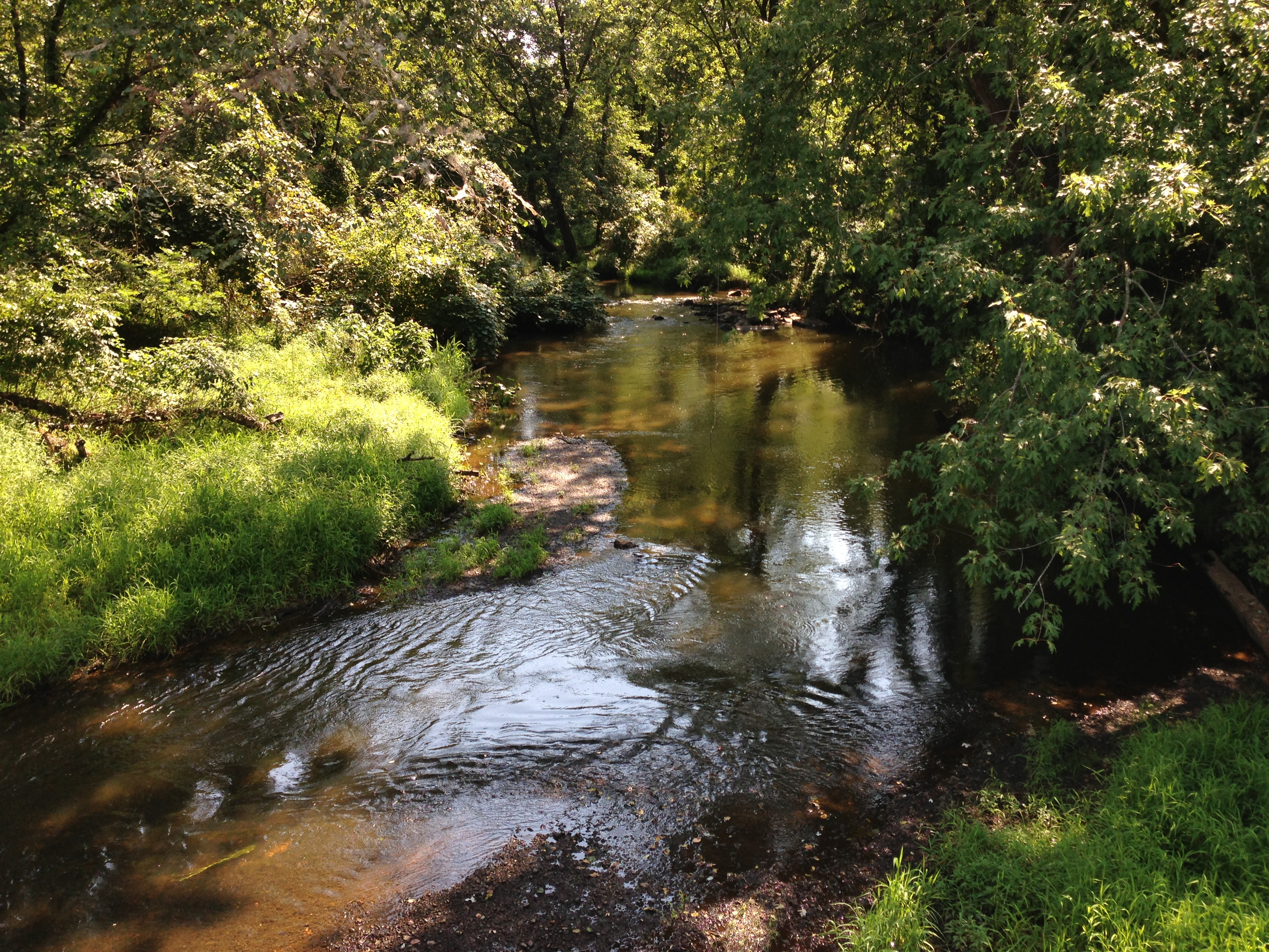 View east from Mercer County Route 533 up the Assunpink Creek along the border between Mercer County Park and the Van Nest Wildlife Refuge on the border between Lawrence Township and Hamilton Township on August 26th 2013